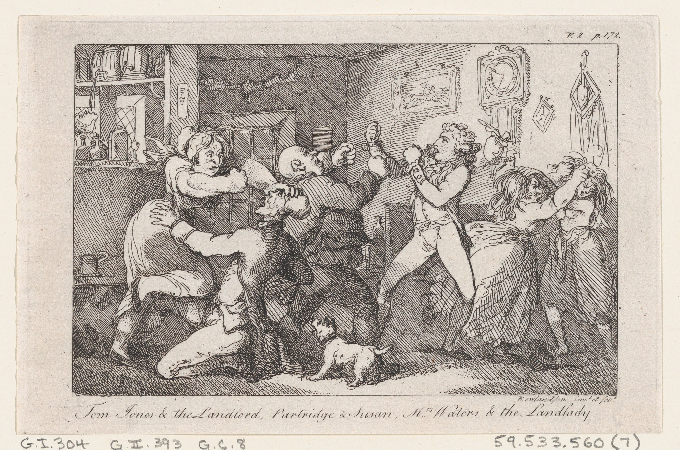 Print; Prints